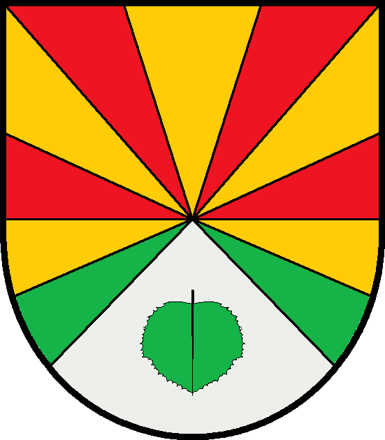 Coat of arms of the municipality Wangelau in Schleswig-Holstein, Germany.